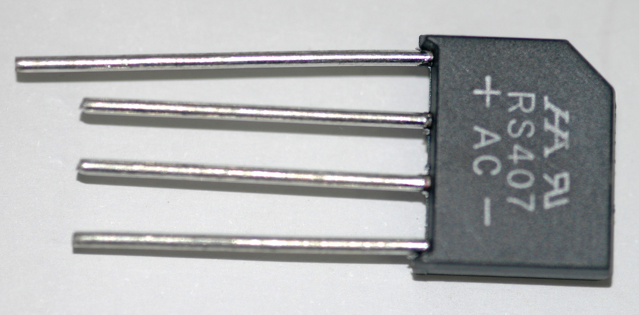 A full wave rectifier diode bridge, rated at 4A x 1000 V